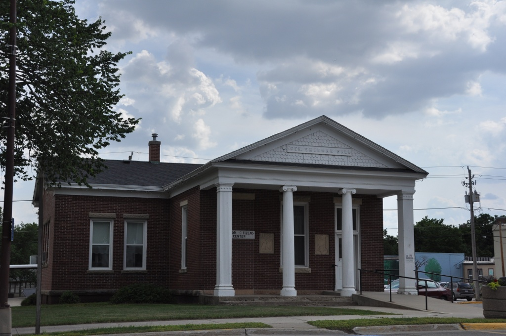 The General Sherman Hall, a Civil War memorial, in Sac City, Iowa.